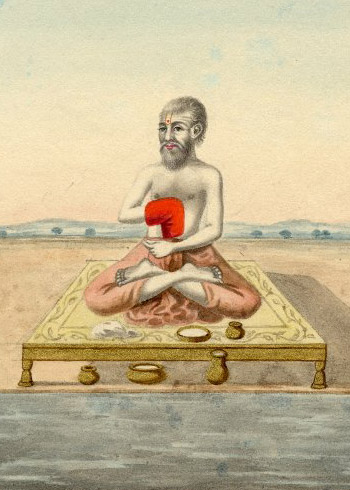 Watercolor painting of Kapila, vedic sage.